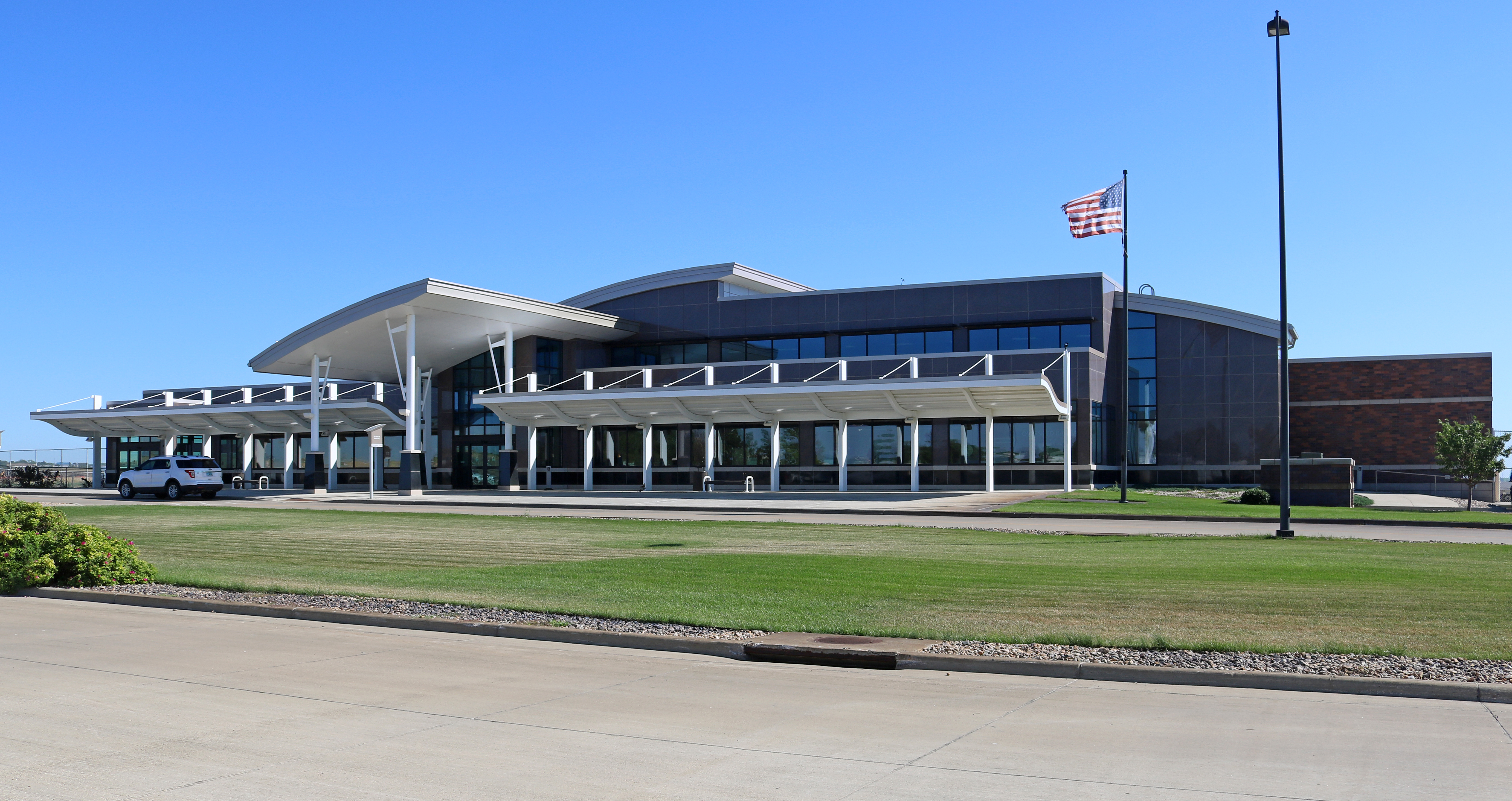 A view of the Pierre Regional Airport terminal in Pierre, South Dakota.